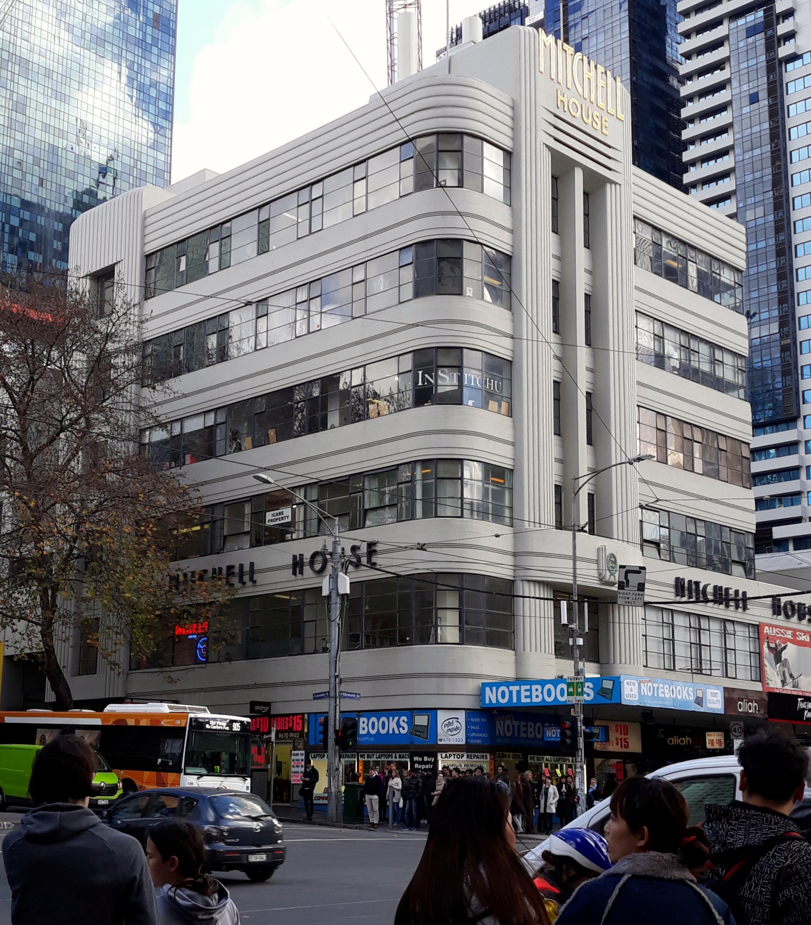 A white, six-storey Art Deco building with curved corners on a city street corner.